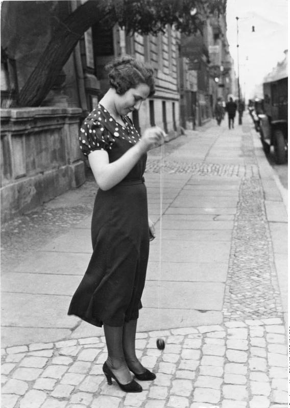 JO JO - das Spiel der zwanziger Jahre auf den Strassen Berlins [Charlottenstr.] Information added by Wikimedia users."The Yo-Yo game of the 1920s, Charlottenstrasse, Berlin" (however, the clothes that the woman is wearing look more from the 1930s).